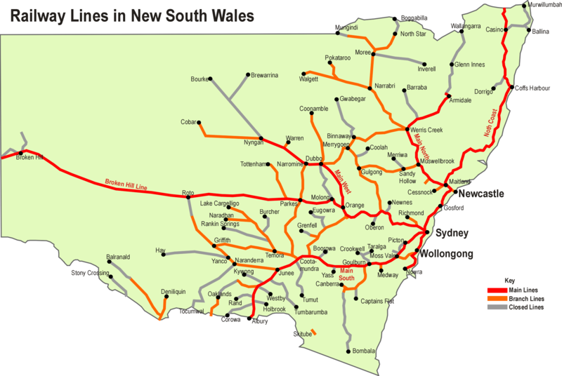 Map of railways in New South Wales